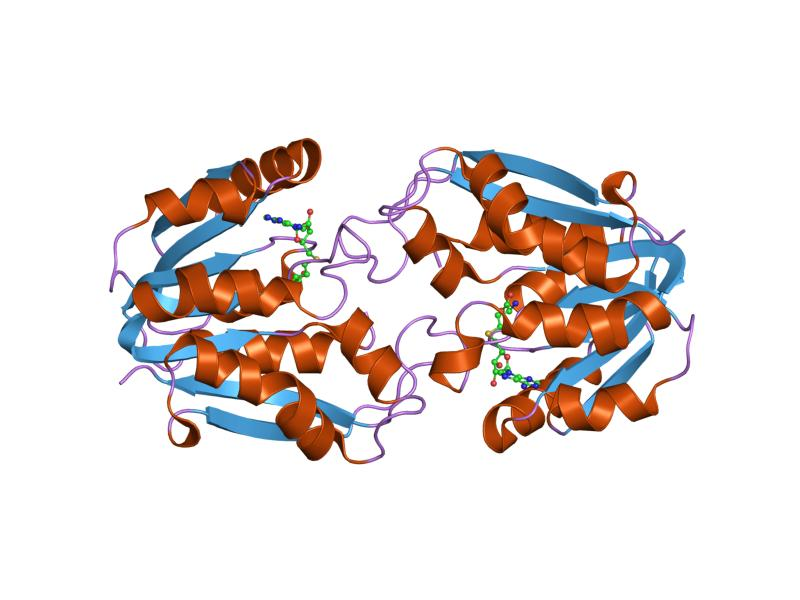 Cartoon representation of the molecular structure of protein registered with 1khh code.